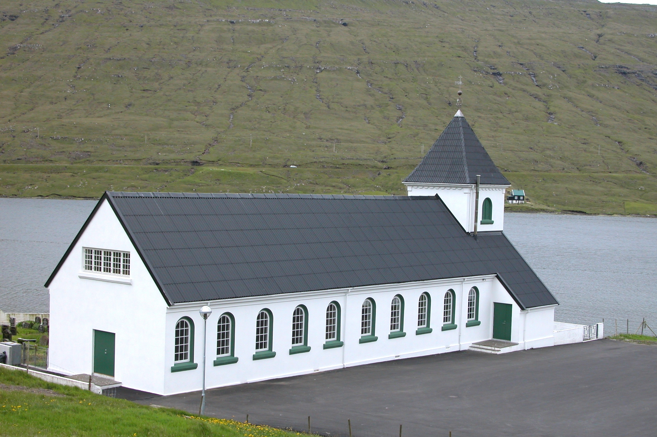 Church of Norðskáli at the Sundini, Eysturoy, Faroe Islands.